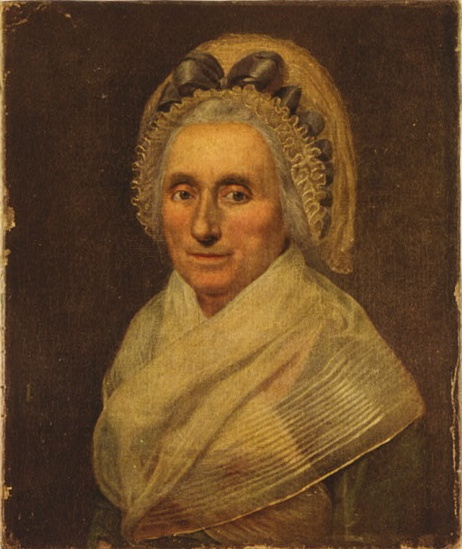 1916 photomechanical print of a portrait of Mary Ball Washington called "Mary Ball Washington at the age of about Four Score" (attributed to Robert Edge Pine)